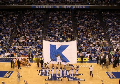 Photo by submitter, -Campaigner444 18:59, 3 November 2005 (UTC)